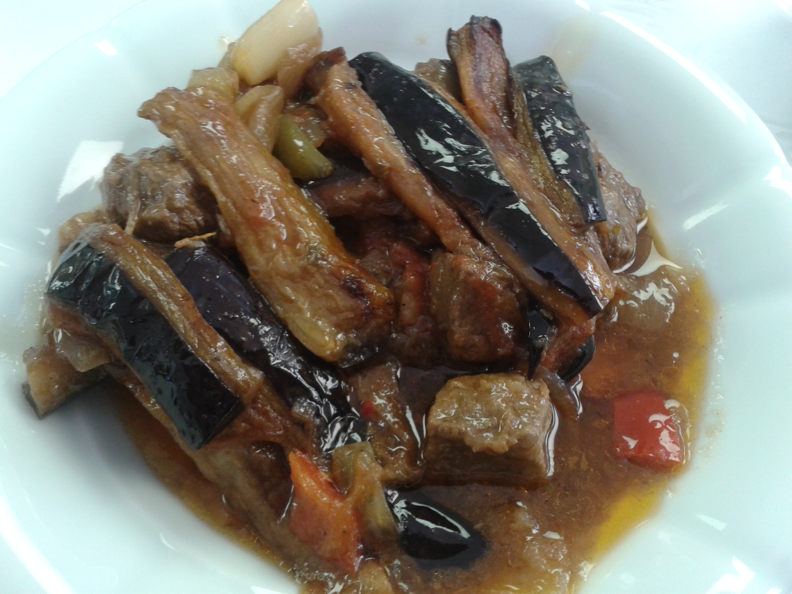 Etli patlıcan yemeği (eggplant stew with veal) from Turkey.